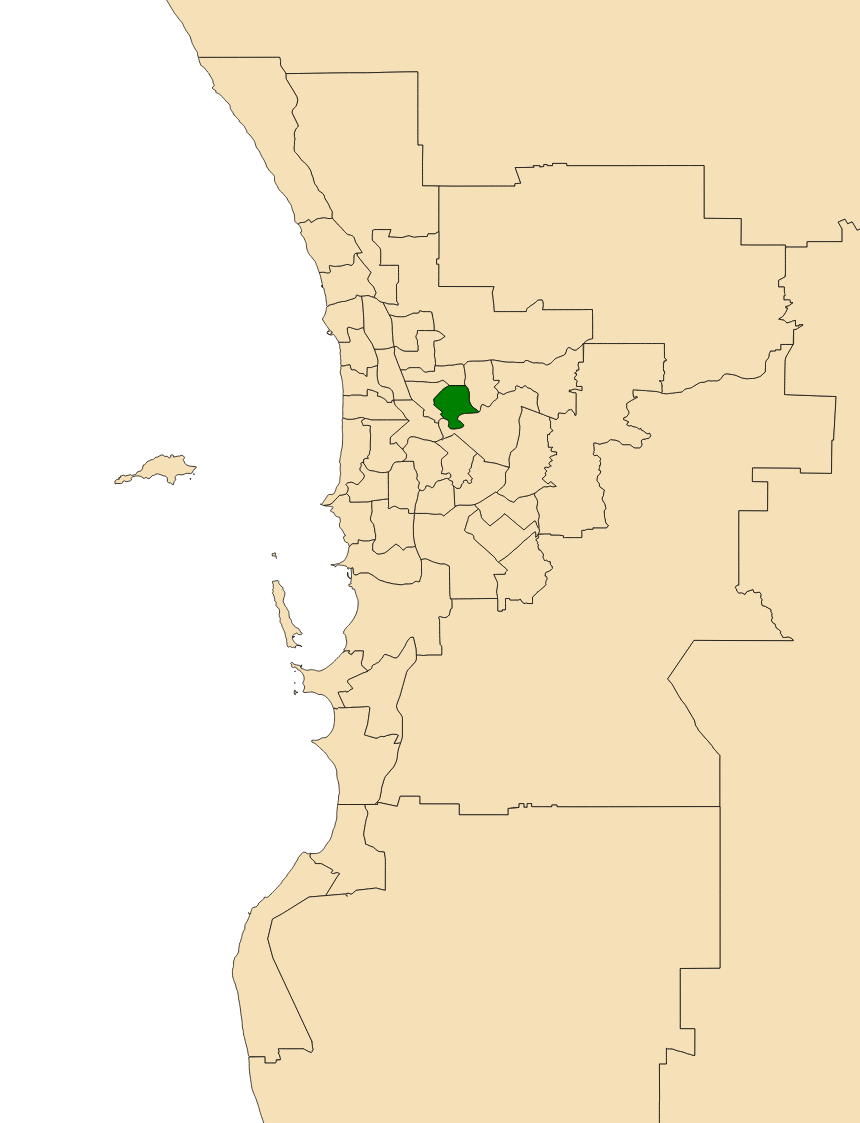 Location of the electoral district of Maylands in the Perth metropolitan area, Western Australia as of the 2017 WA state election.